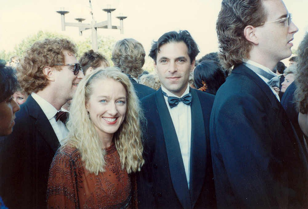 Patricia Wettig and husband Ken Olin on the red carpet at the 41st Annual Emmy Awards, 9/17/89 - Permission granted to copy, publish, broadcast or post but please credit "photo by Alan Light" if you can